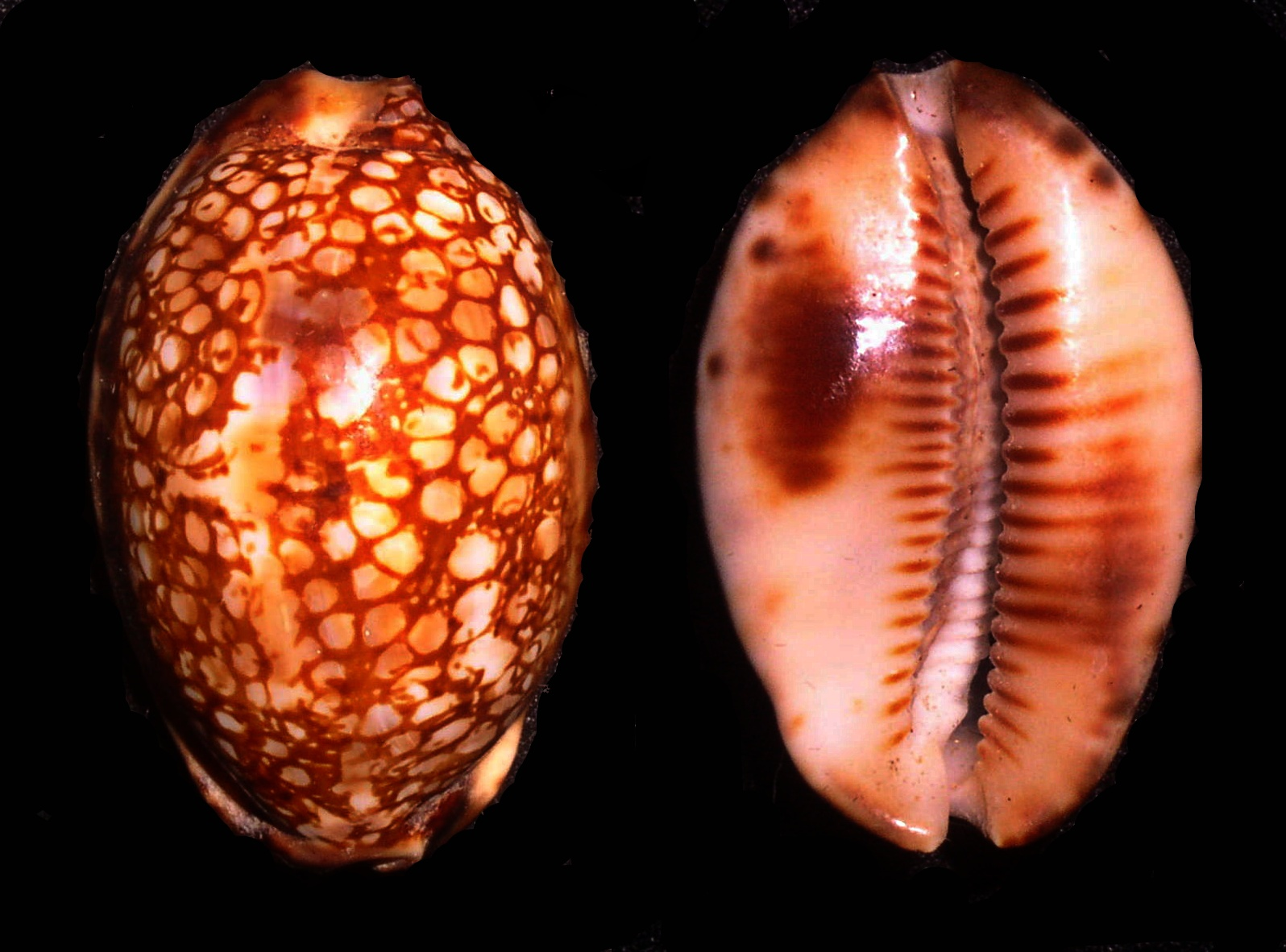 Cypraea maculifera also known as Mauritia maculifera